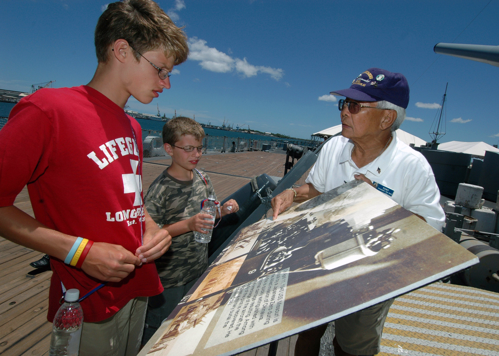 PEARL HARBOR, Hawaii (June 19, 2007) - An 11-year-old boy and his 8-year-old brother learn about the attack on USS Missouri (BB 63) during a private tour sponsored by the Make-A-Wish Foundation. During the tour, the boy and his family also visited the Pacific Aviation Museum, USS Arizona Memorial, USS Utah Memorial, and Naval Station Pearl Harbor. U.S. Navy photo by Mass Communication Specialist 3rd Class Michael A. Lantron (RELEASED)